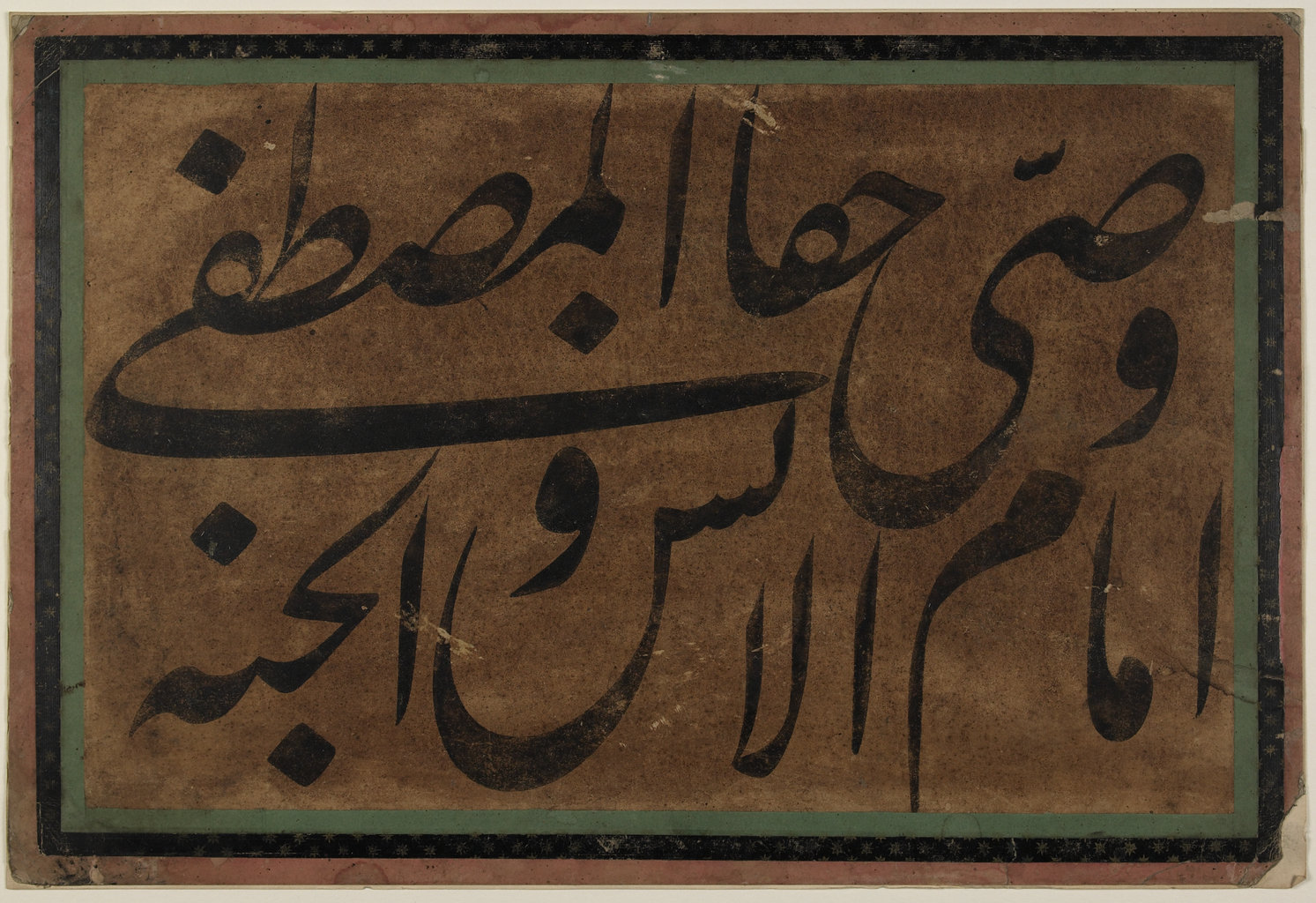 This calligraphic panel is written in black Nasta'liq on a brown surface and framed by two borders in plain green and blue decorated with gold stars. The inscription provides an invocation of 'Ali through his many epithets: “The Successor of the Leader of Humankind and Spirits, the Mustafa in Reality.” 'Ali is described as the rightful viceregent of the Prophet Muhammad (i.e., Mustafa, which means “the Chosen One”), a ruler of men and spirits, and a true manifestation of prophethood. This invocation to the son-in-law of the Prophet shows that the piece must have been produced in a Shi'ia milieu, most likely in India during the 18th–19th centuries. The panel may have been included in an album of calligraphies or put on display on a wall. Arabic calligraphy; Arabic manuscripts; Illuminations; Islamic calligraphy; Islamic manuscripts; ʻAlī ibn Abī Ṭālib, Caliph, circa 600-661